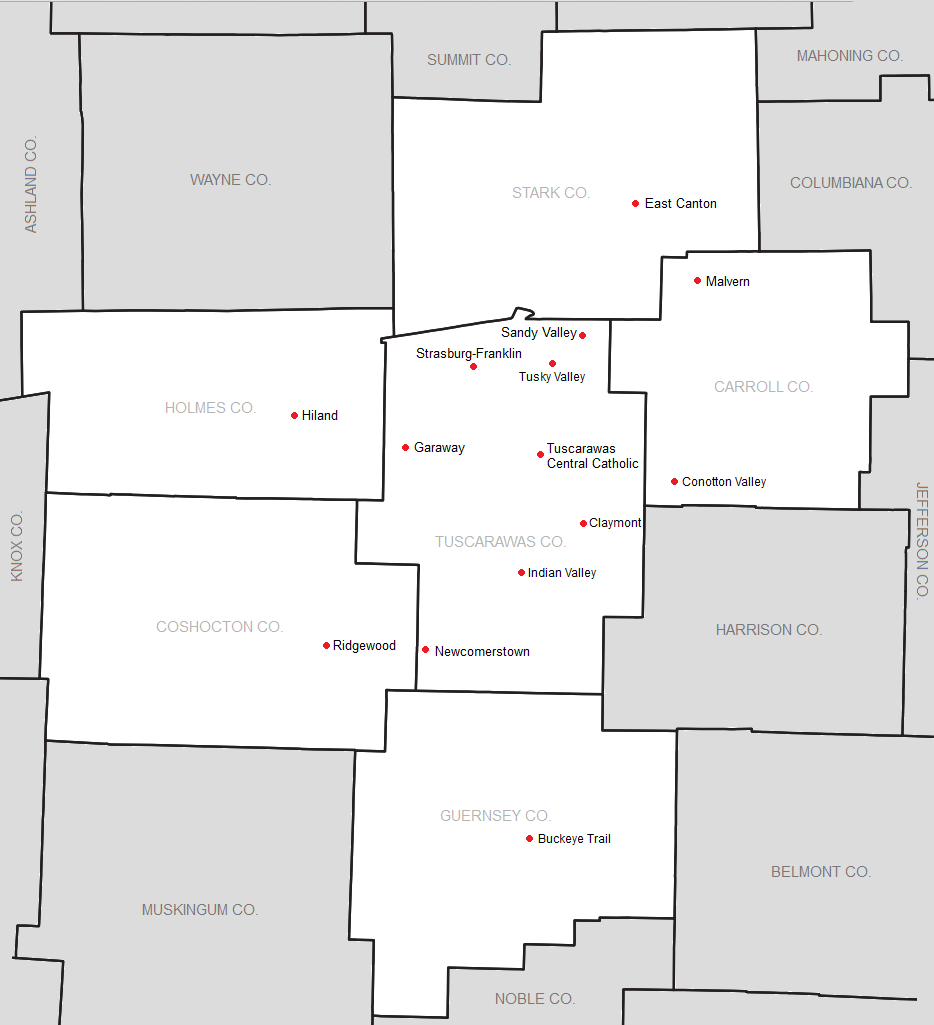 Map showing the member schools of the IVC for the 2016-17 school year.